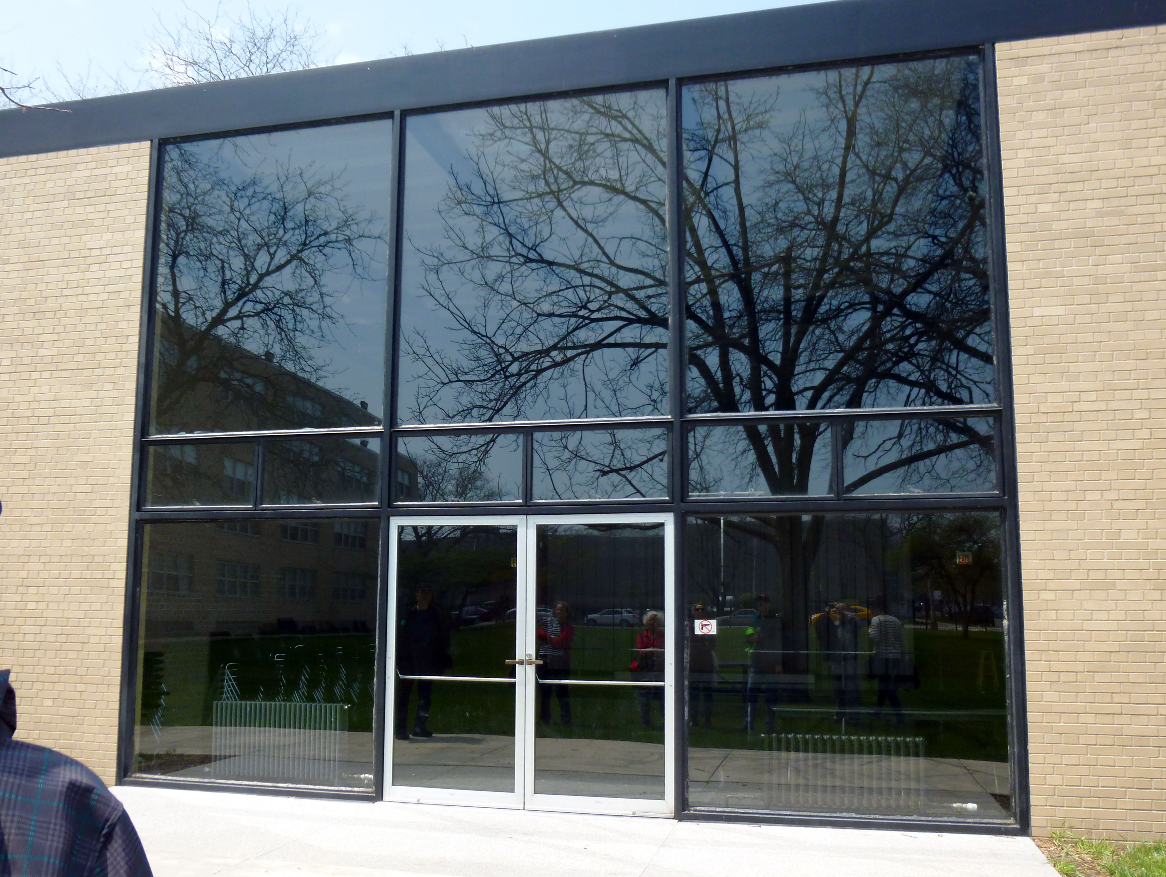 front view of chapel